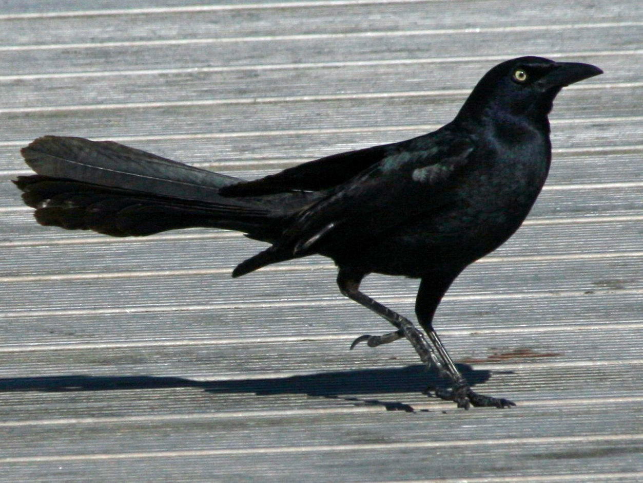 Male Great-tailed Grackle (Quiscalus mexicanus} - Ash, North Carolina